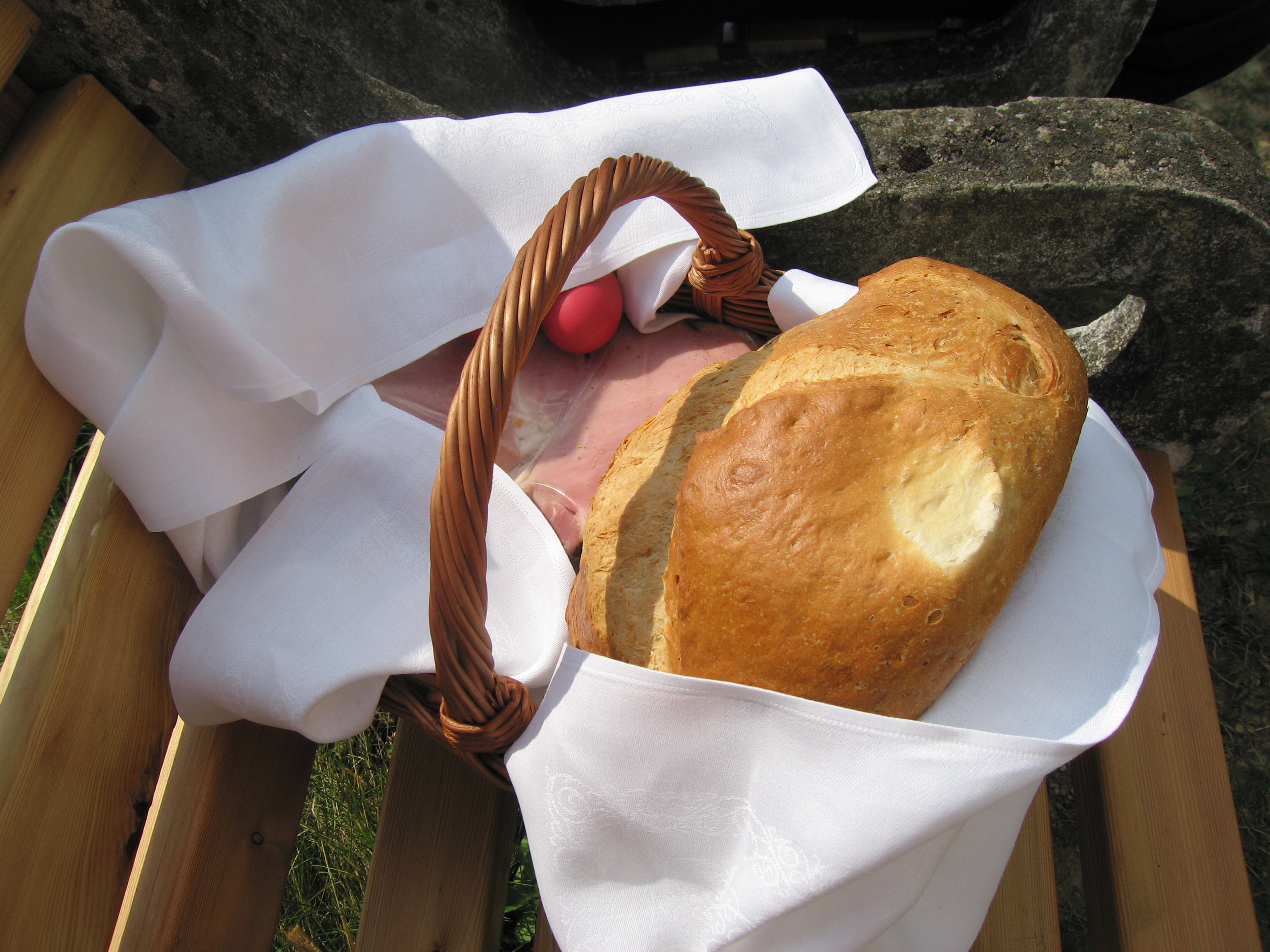 A traditional Styrian Easter Basket, ready for "Speisenweihe" (food lustration) on Holy Saturday. In Styria, this is more commonly called "Fleischweihe" (meat lustration), even though that is not the official catholic term. A typical basket will always contain a large piece of ham (in this photo it is vacuum-sealed), a loaf of bread and some eggs. Other foods may be added at the discretion of the owner.